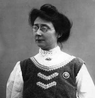 Suffragette Mary Blathwayt 1909. This picture was taken by Colonel Linley Blathwayt and was stored on glass negatives. The Blathwayt's home of Eagle House way the home of Linley, Emily and Mary Blathwayt who all actively supported the suffragette cause. Nearly all the prominient UK suffragettes stayed with them and these photos and dozens of trees were planted to commemorate their visits. Col. Linley Blathwayt took these pictures between 1908 and 1912. He died in 1919. The pictures are made available in larger formats by .